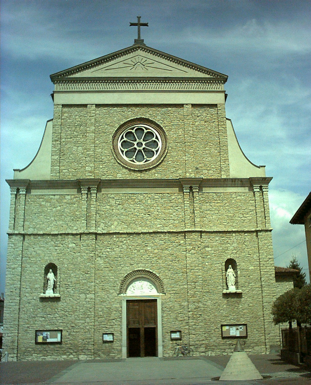 Parish Church of Mozzo, Bergamo, Italy photo by Cruccone